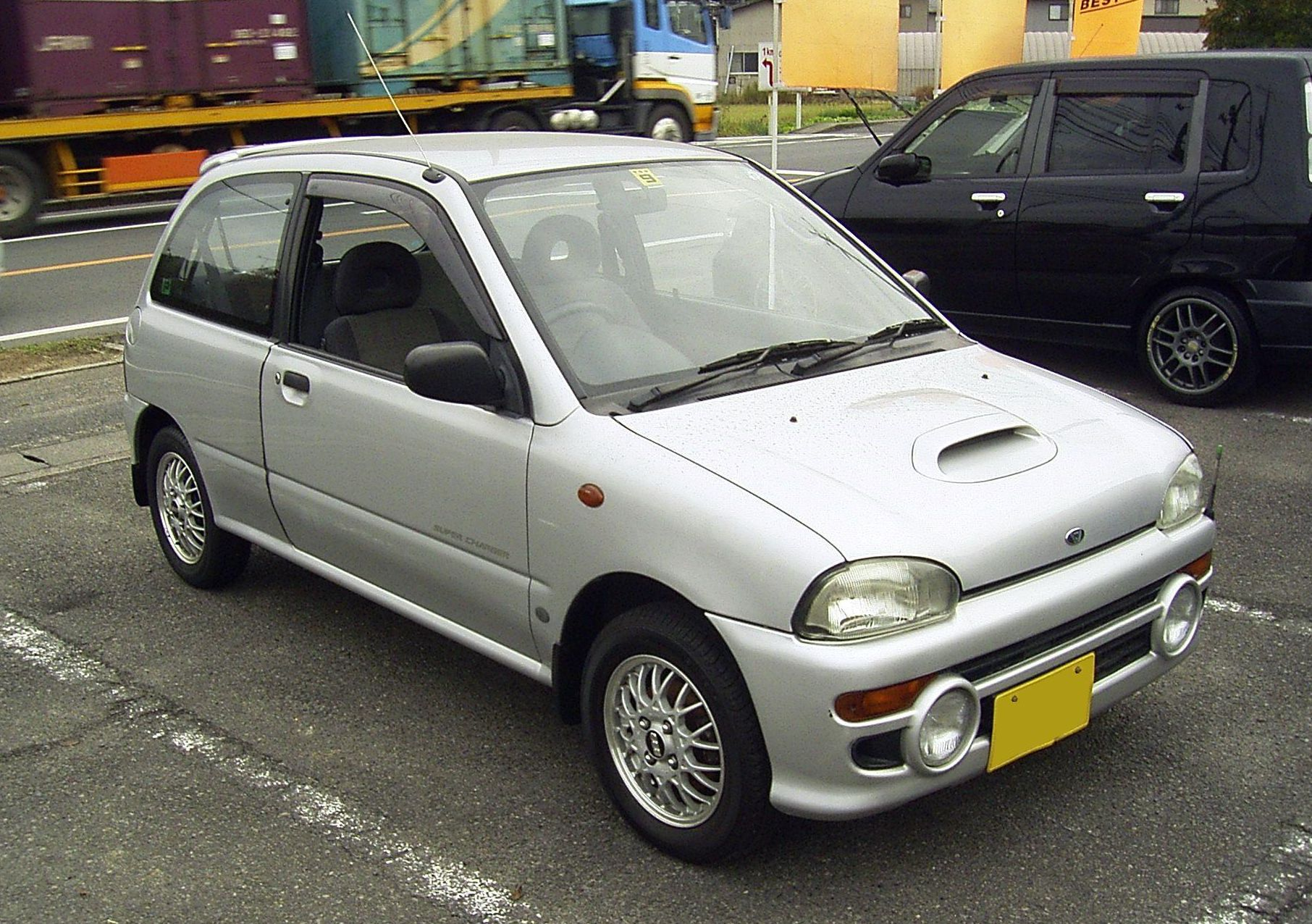 Subaru Vivio M300 supercharger model